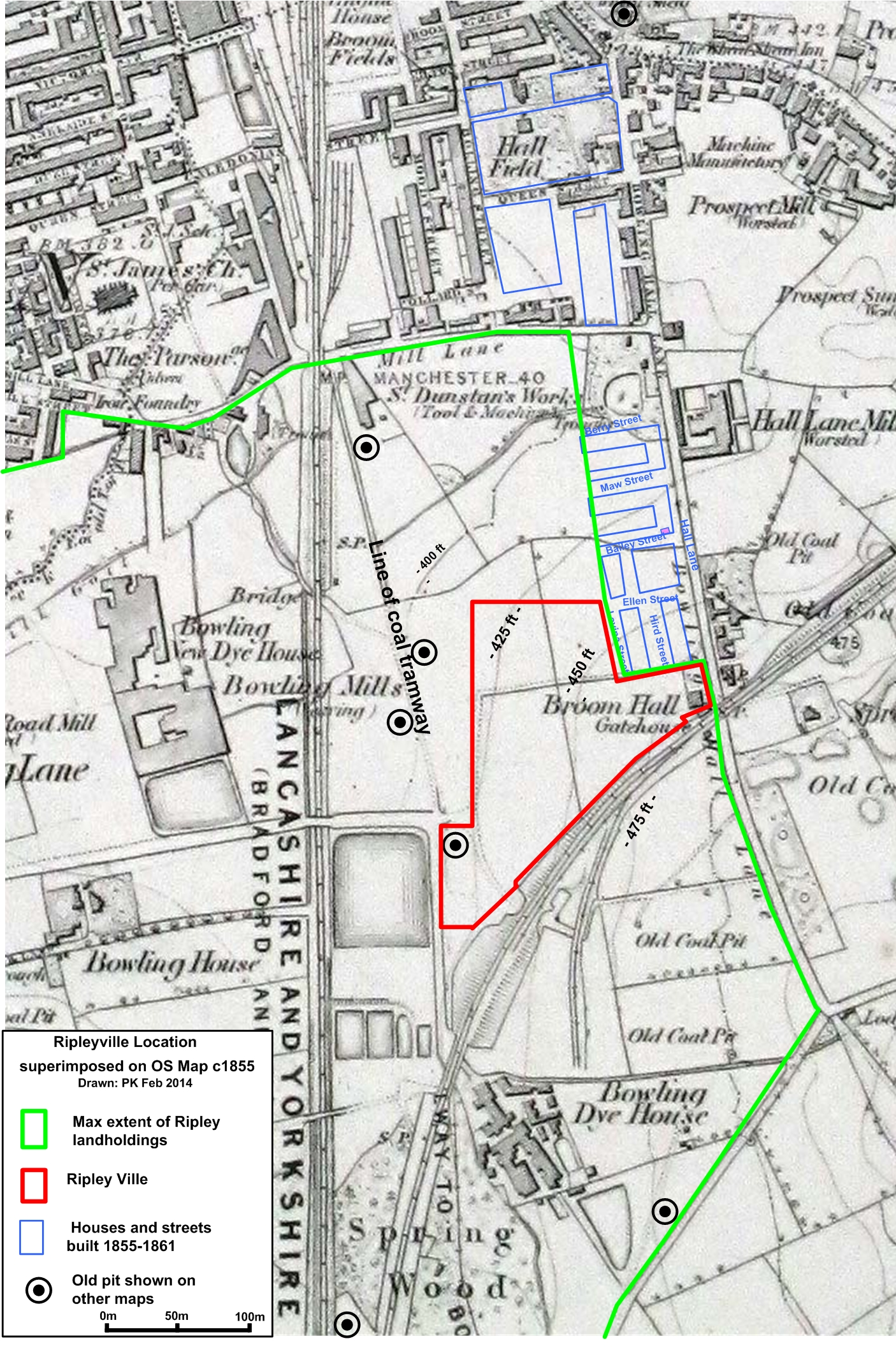 Copy of 1855 OS map of Bradford with additional details added in Visio Feb 2014 Other information Ordnance Survey copy right expired 1905, 50 years after the publication date.